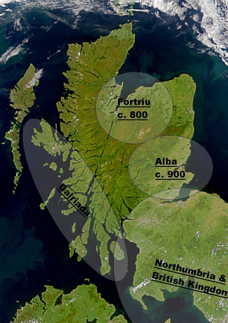 Summary Author: Angus McLellan, source: Modified by me from NASA Visible Earth image [1] If I hold any copyright in this work I hereby license it under the GFDL, otherwise, as the work of US Government agency, there is no copyright in this work. Licensing 16:51, 5 March 2006 Angusmclellan 794x1123 (1586774 bytes) (Close, but no cigar. Recropped, resized.) 16:01, 5 March 2006 Angusmclellan 794x1123 (1273599 bytes) (v 0.01: to fix scaling and cropping faults. But does it ?) 15:35, 5 March 2006 Angusmclellan 794x1123 (1016705 bytes) (Author: Angus McLellan, source: Modified by me from NASA Visible Earth image [ If I hold any copyright in this work I hereby license it under the GFDL, otherwise, as the work of US Government agency,)